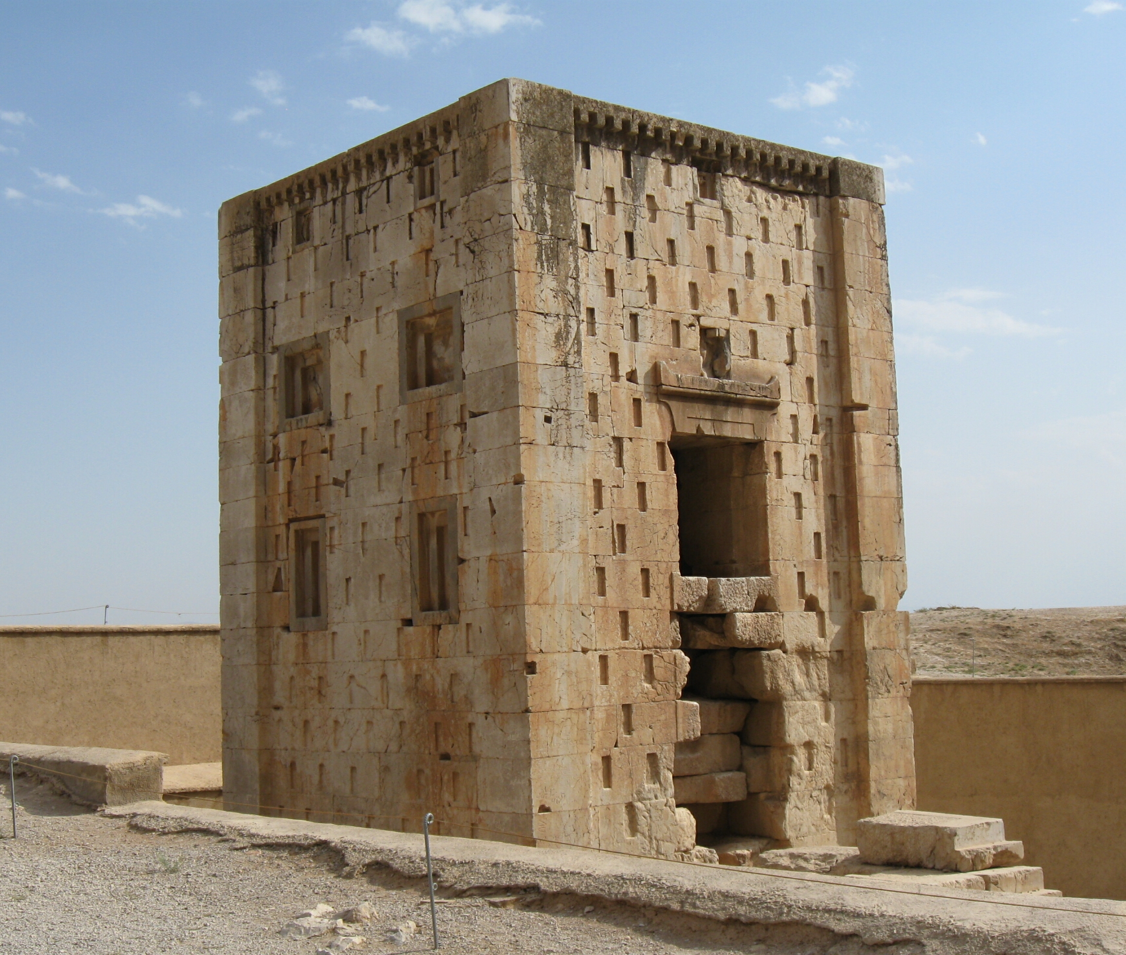 Ka'ba-ye Zartosht (Cube of Zoroaster)